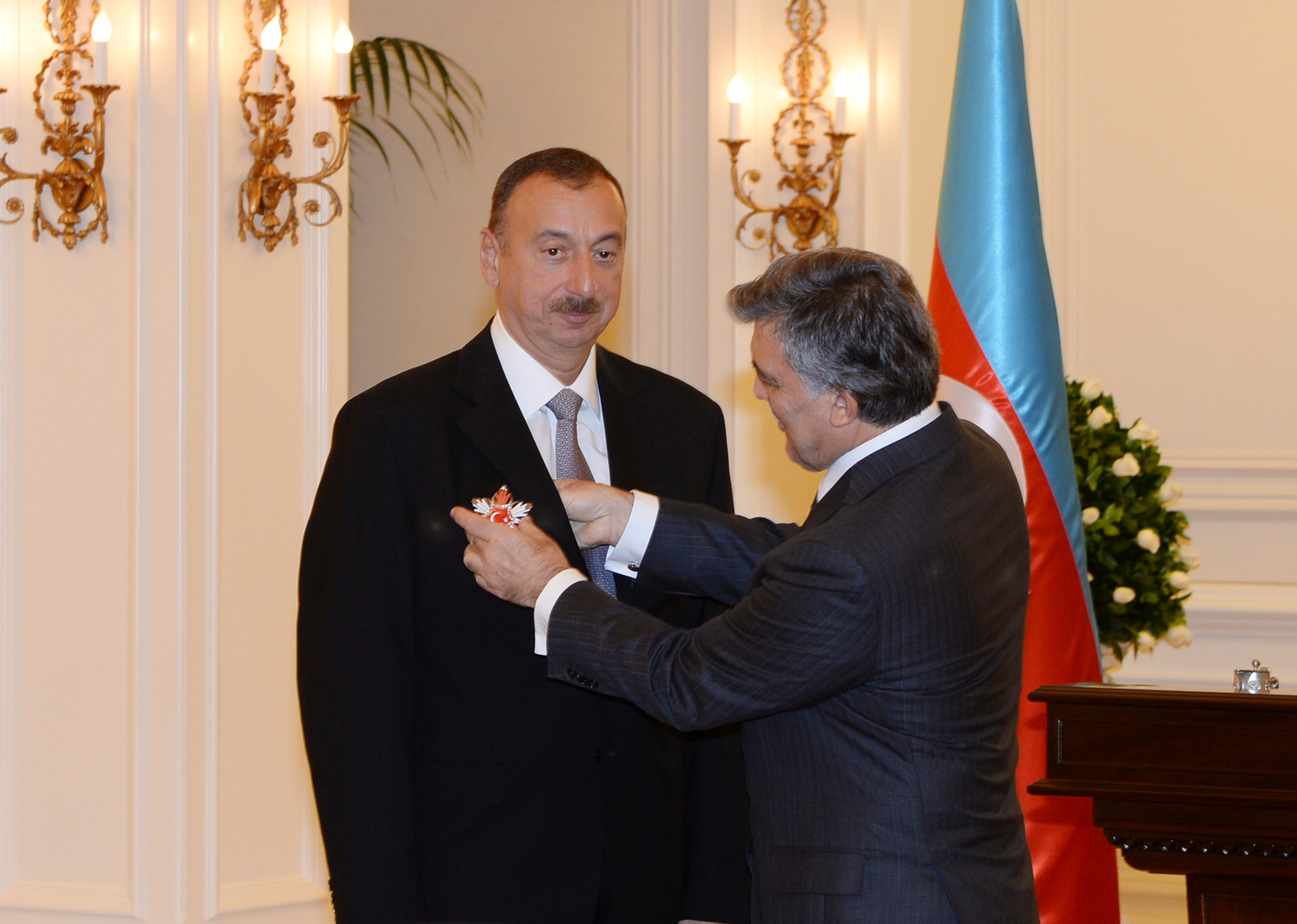 The presidents of Azerbaijan and Turkey have been awarded at Cankaya Palace